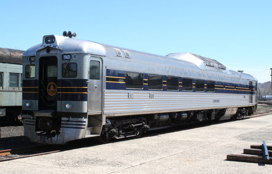 Budd RDC-2 at Danbury Railway Museum in April 2006. The car was originally built for the Baltimore and Ohio Railroad in 1956 as #6505, then renumbered #9940 in 1970. It kept the number when sold to MDOT in 1980, but was renumbered as MARC #1 in 1987. Retired in 1993, it was restored as "B&O #1960" with a non-historically-based paint scheme in 2006.